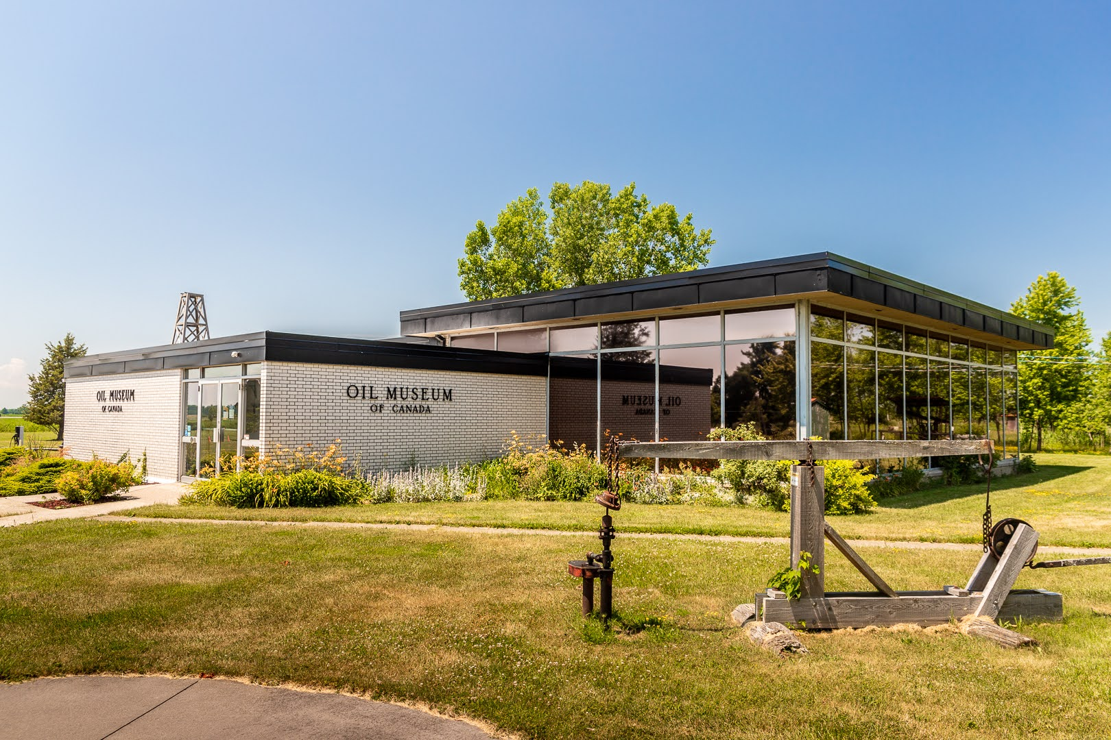 The Oil Museum of Canada's main building in Oil Springs, Ontario.